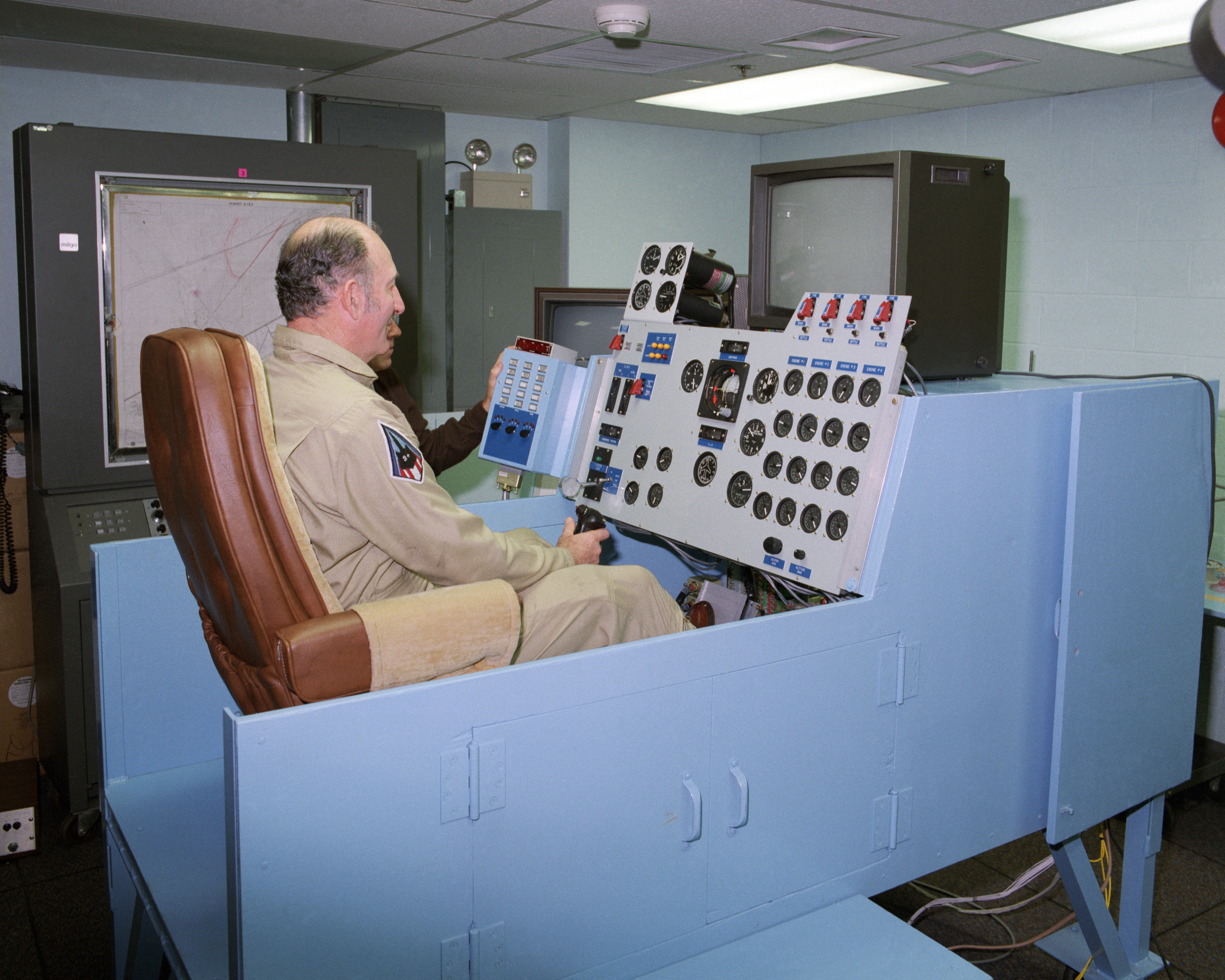 Pilot Fitz Fulton in CID Simulator